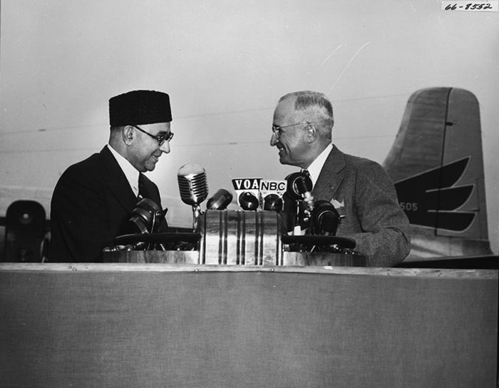 Prime Minister Ali Khan speaking with President Harry S. Truman.